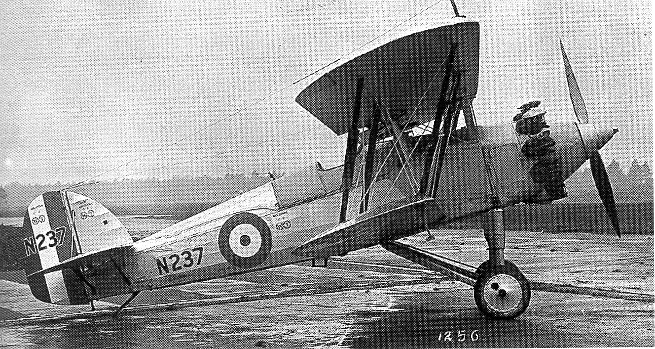 The sole Hawker Hoopoe N237 in April 1929 with Bristol Mercury engine and two bay strutting.